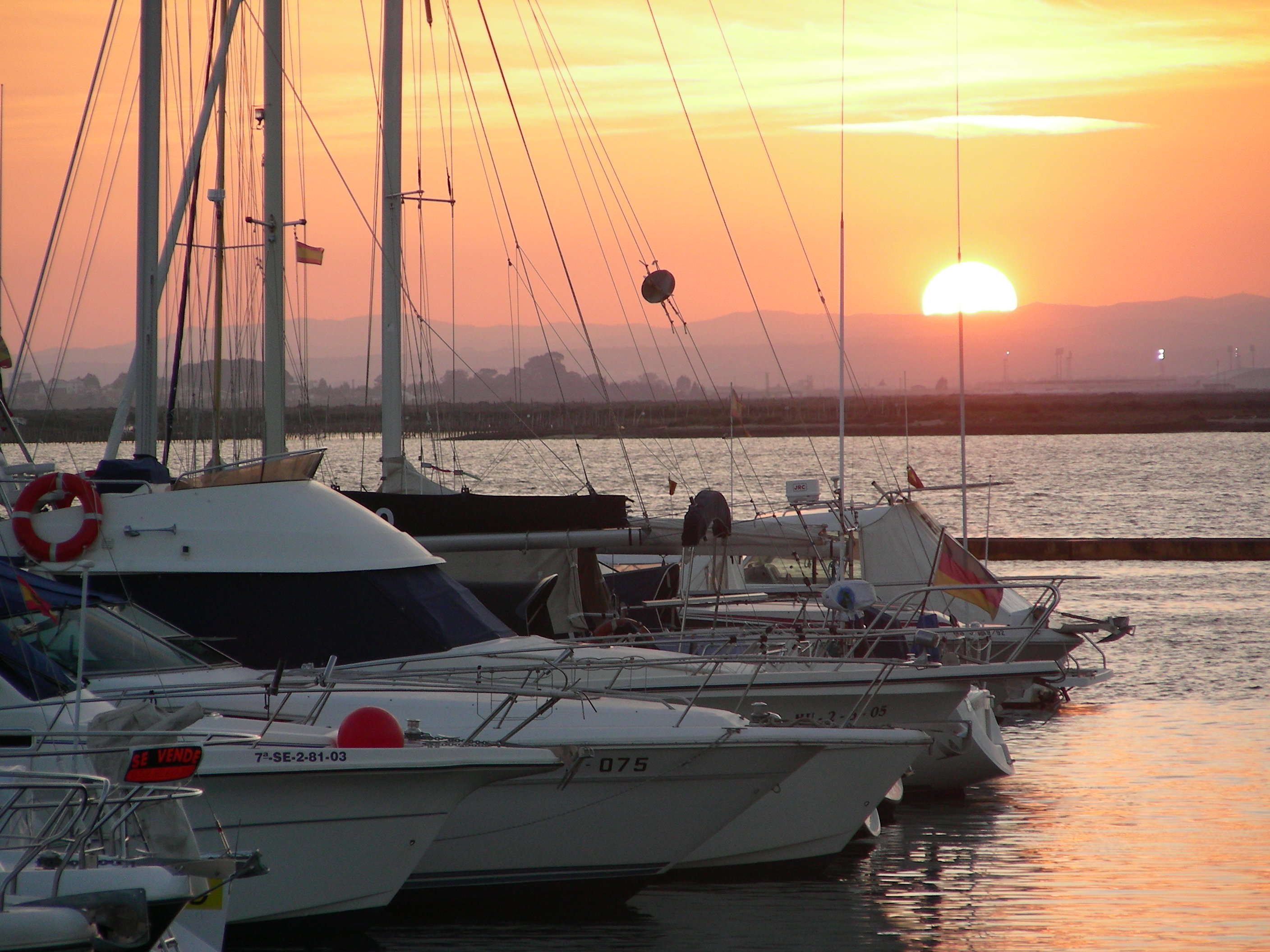 Sunset in Isla Cristina's harbour